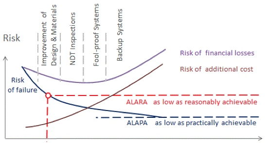 Risk vs Cost / Complexity of technical systems. The complexity of the technical systems such as Improvements of Design and Materials, Planned Inspections, Fool-proff design, and Backup Redundancy decreases risk and increases the cost. The risk can be decreased till ALARA (as low as reasonably achievable) or ALAPA (as low as practically achievable) levels